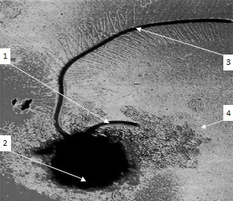 A chrysophyte algae (possibly Paraphysomonas sp.) under transmission electron microscopy: 1. whiplash flagellum; 2. cell body; 3. flagellum with tubular tripartite hairs; 4. scales.